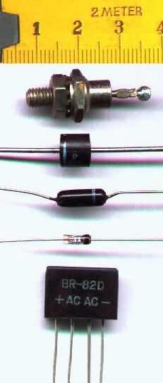 Diodes only allow electric current to pass through one way.